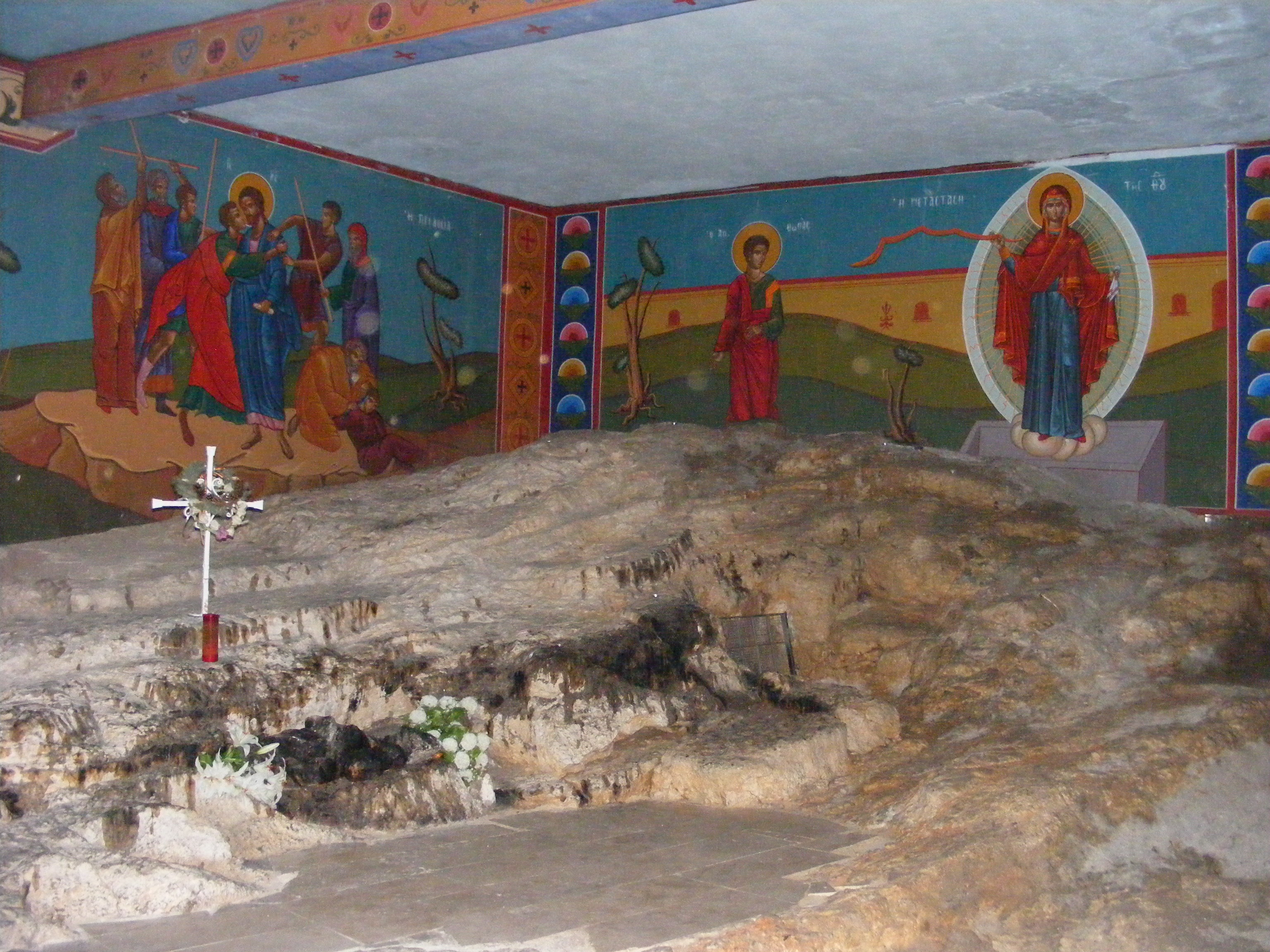 Grotto of the stoning of St. Stephen beneath the greek-orthodox Church of St.Stephanus at the foot of the Mount of Olives in Jerusalem